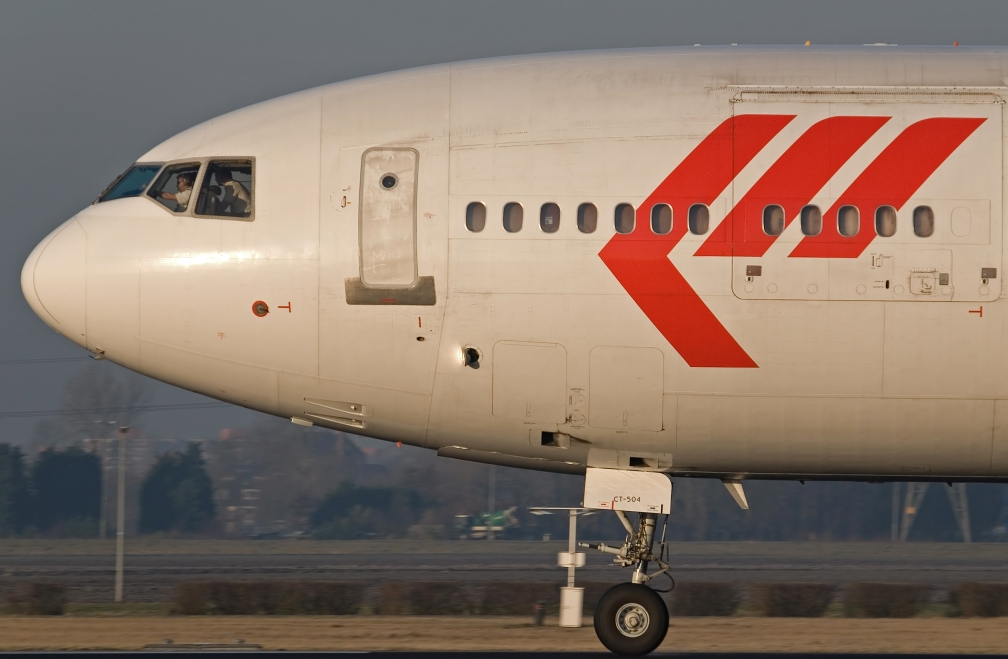 McDonnell Douglas MD-11CF Amsterdam schiphol [AMS / EHAM] 30-01-2009